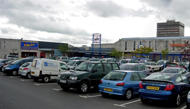 The Galleries shopping centre in Washington, Tyne and Wear, Northeast England.